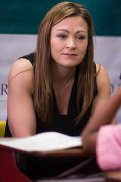 SAN JUAN, Puerto Rico, Feb. 1, 2018 - Julia Keleher Secretary of Education in Puerto Rico (left), Alex Alvarez Acting team lead of the Health Communication Support Team in Puerto Rico (center) and Yvette Barbosa, the Ruiz Belvis Elementary School of San Juan's Principal (rigth), talk about the coloring books that are about to be handed out to the students. The Centers for Disease Control and Prevention (CDC) provided one hundred thousand coloring books to be distributed by the Department of Education in Puerto Rico. The coloring books will help raise awareness on how to avoid influenza. FEMA/Eliezer Hernandez